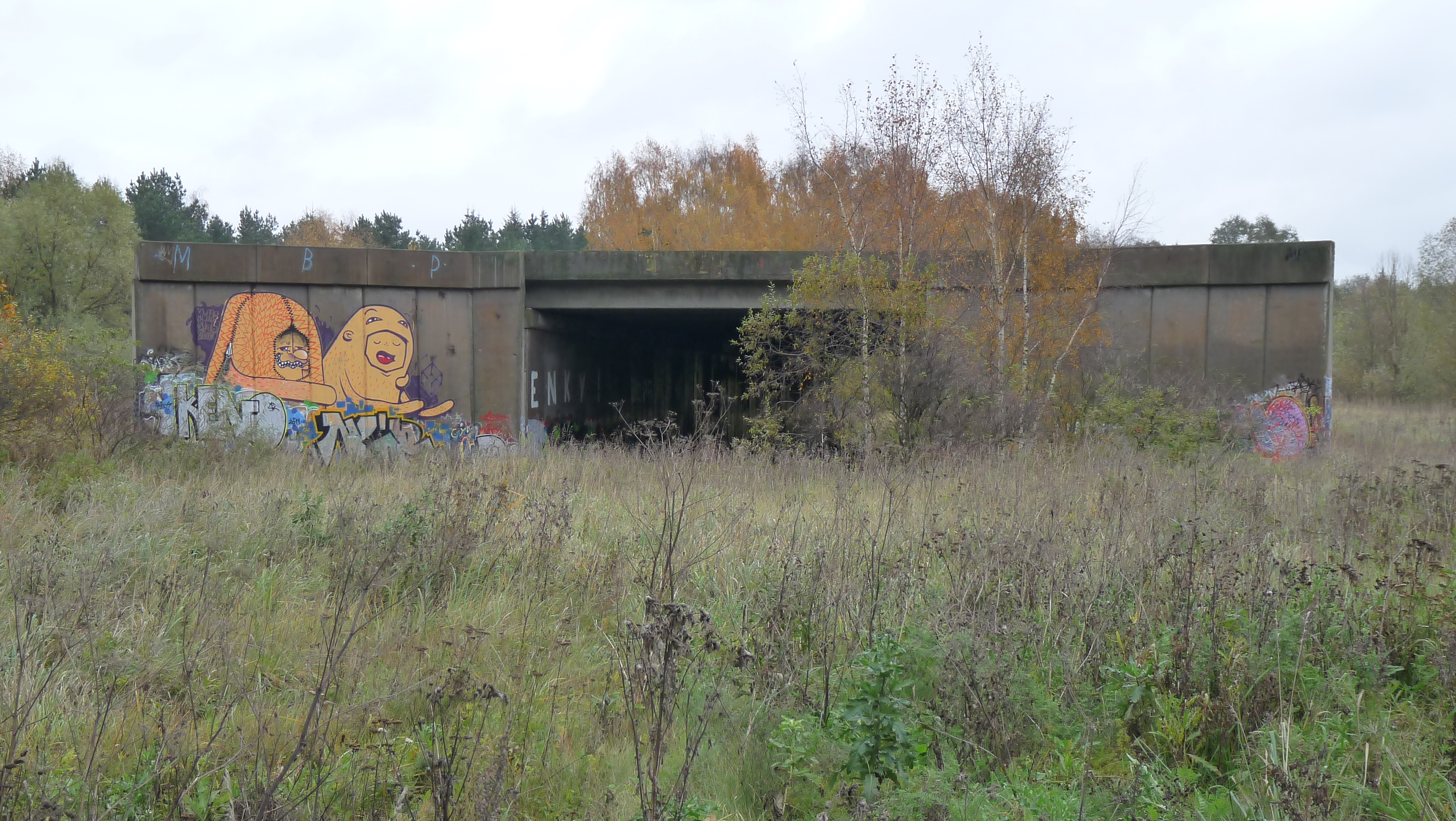 Tram depot in Lasnamäe district, Tallinn, Estonia.